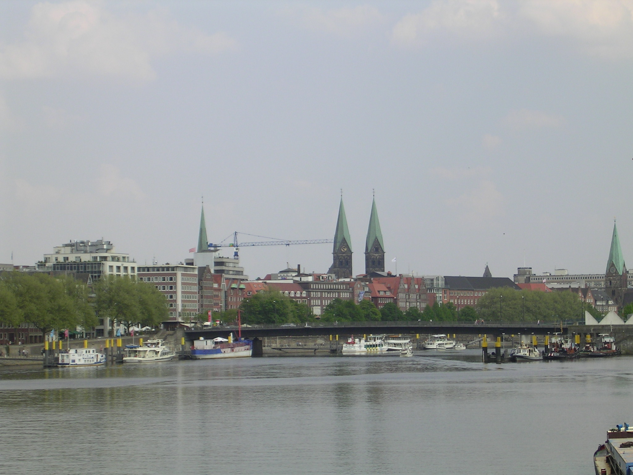 Weser River in Bremen city